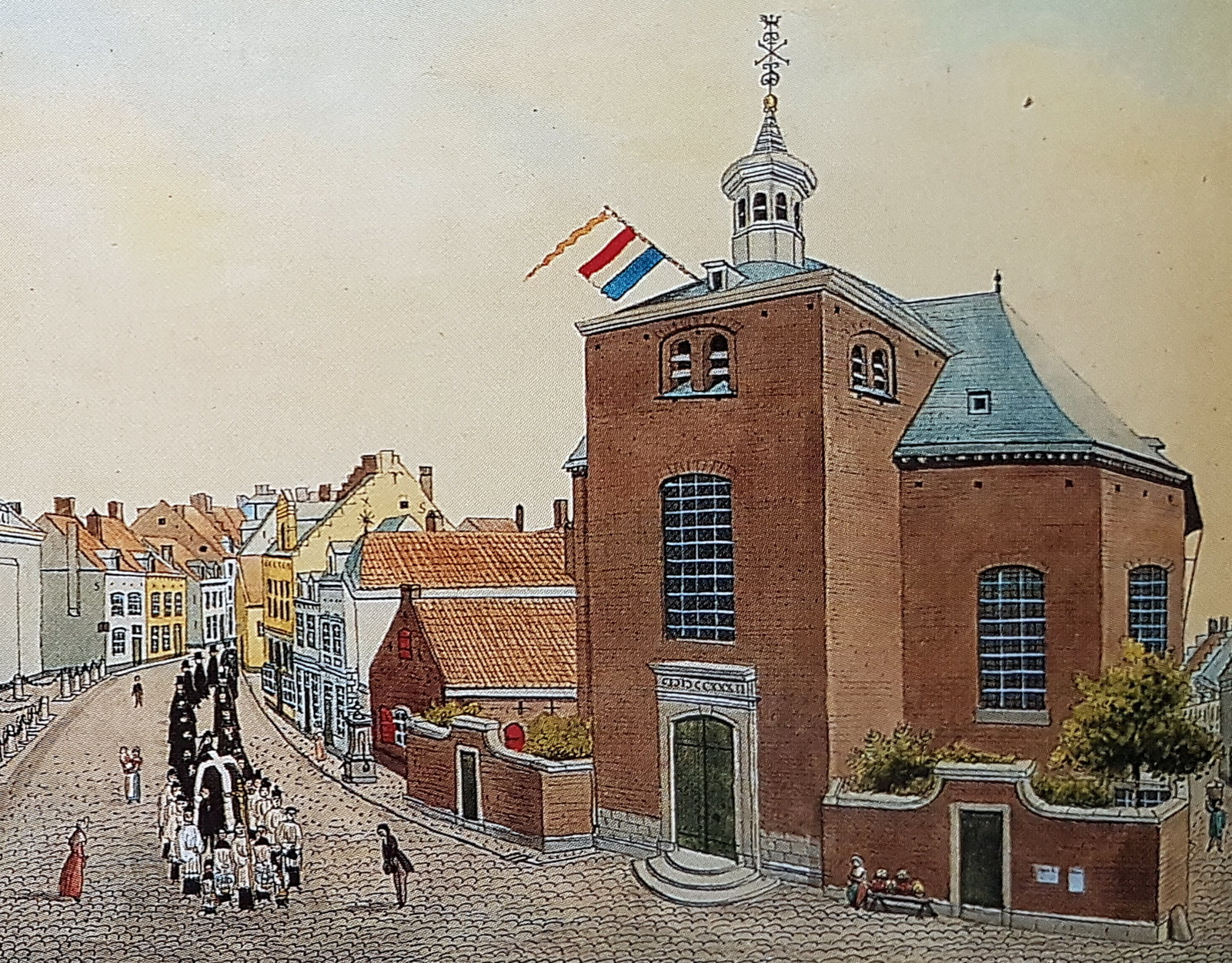 Funeral procession (of Baron des Tombes?) in Sint Pieterstraat in Maastricht, the Netherlands. The drawing is by local artist and amateur historian Philippe van Gulpen (1845).